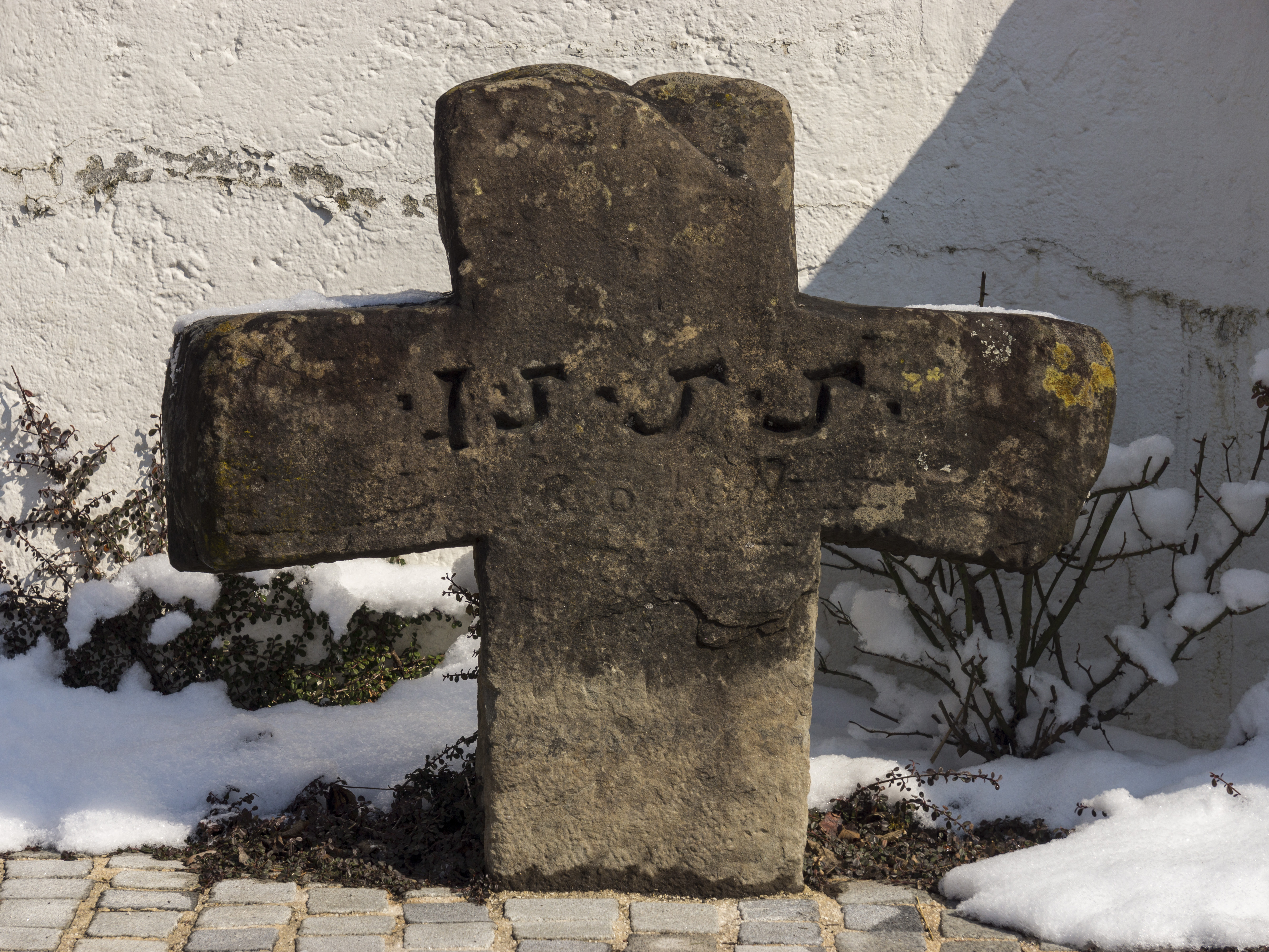 An atonement cross which was erected 1555 in Bad Hindelang.